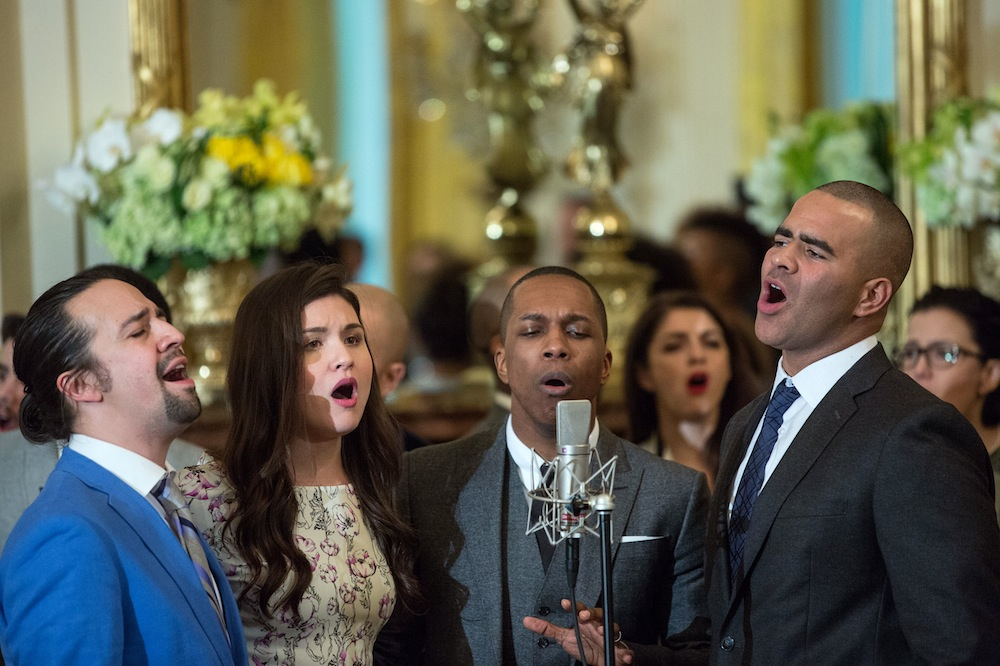 Cast members perform musical selections from the Broadway musical "Hamilton" in the East Room of the White House, March 14, 2016. (Official White House Photo by Amanda Lucidon)